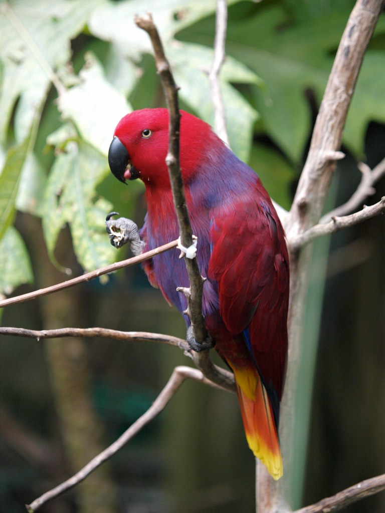 A female Eclectus Parrot at North Carolina Zoo, USA. The zoo has Eclectus roratus vosmaeri listed on its website as one of its birds.